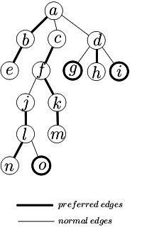 Showing how a link cut tree transforms preferred paths into a forest of trees.